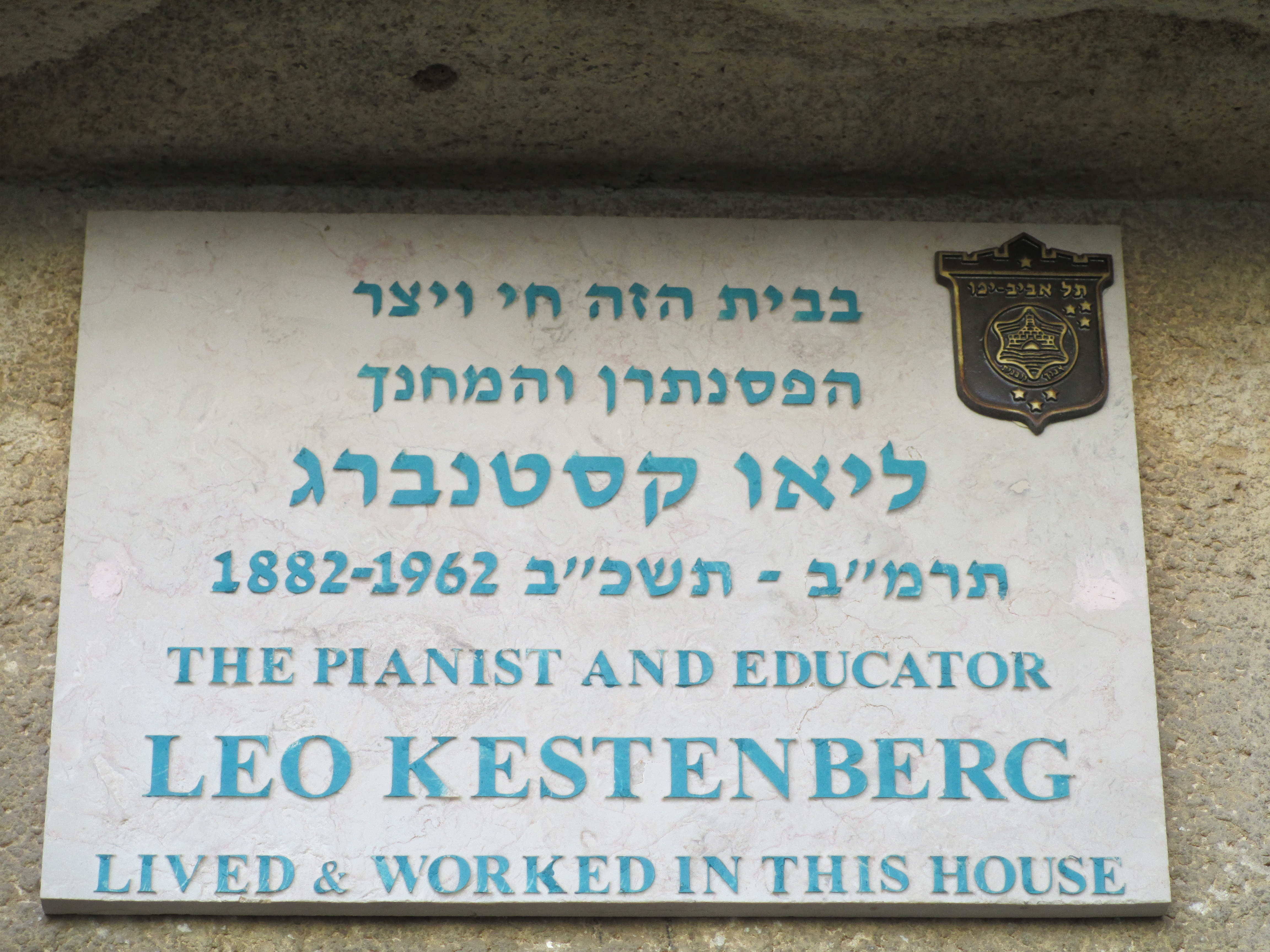 memorial plaque on the pianist leo kestenberg house in tel aviv לוחית זיכרון על ביתו של הפסנתרן והמורה ליאו קסטנברג ברח' אד"ם הכהן 20 בתל אביב